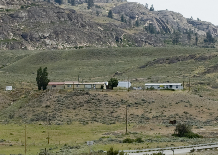 A photograph of a house near St. Mary’s Mission. This was taken from SR 155 just east of Omak, Washington.